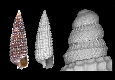 Cerithiopsidella caterinae Cecalupo & Perugia, 2014; family Cerithiopsidae; Madagascar